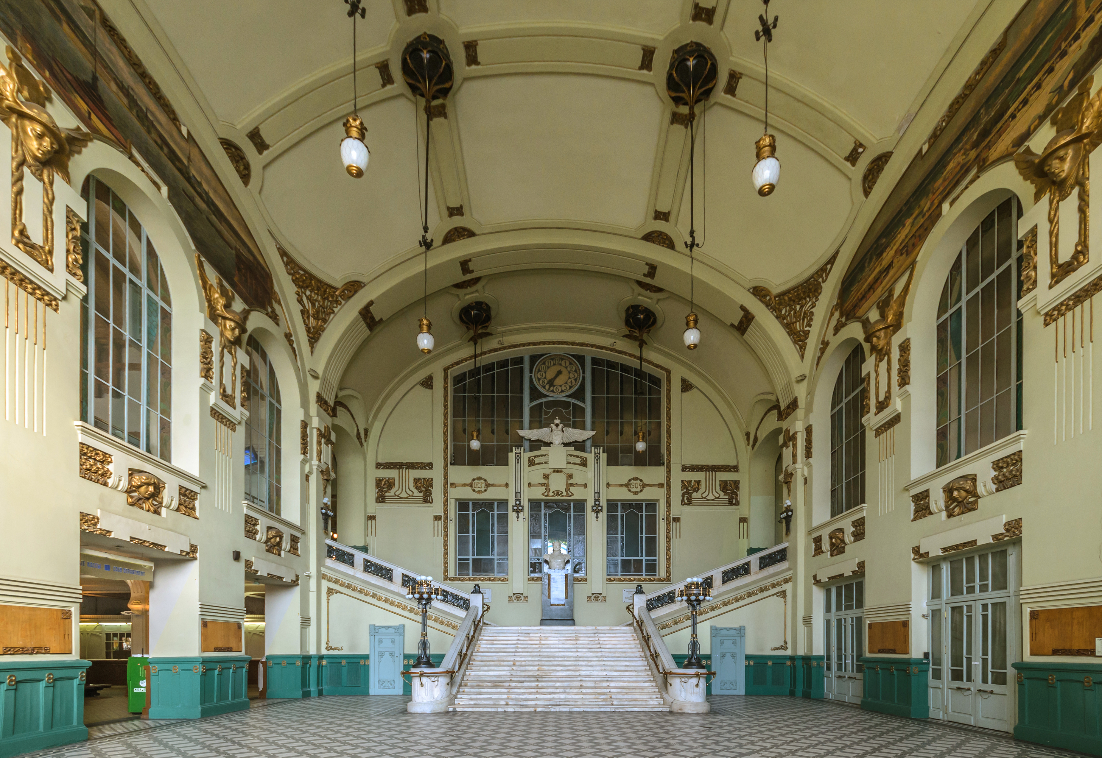 Vitebsky Rail Terminal in Saint Petersburg, Vestibule.